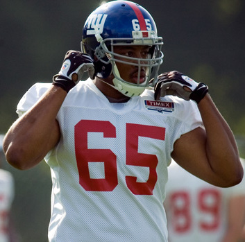 Will Beatty Training Camp 2009